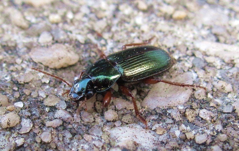 Harpalus affinis Glendale, Queens County, New York, USA June 7, 2011